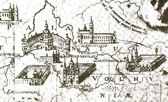 Фрагмент мапи "Tabula chorographica Provinciae Russiae", 1753-1783.